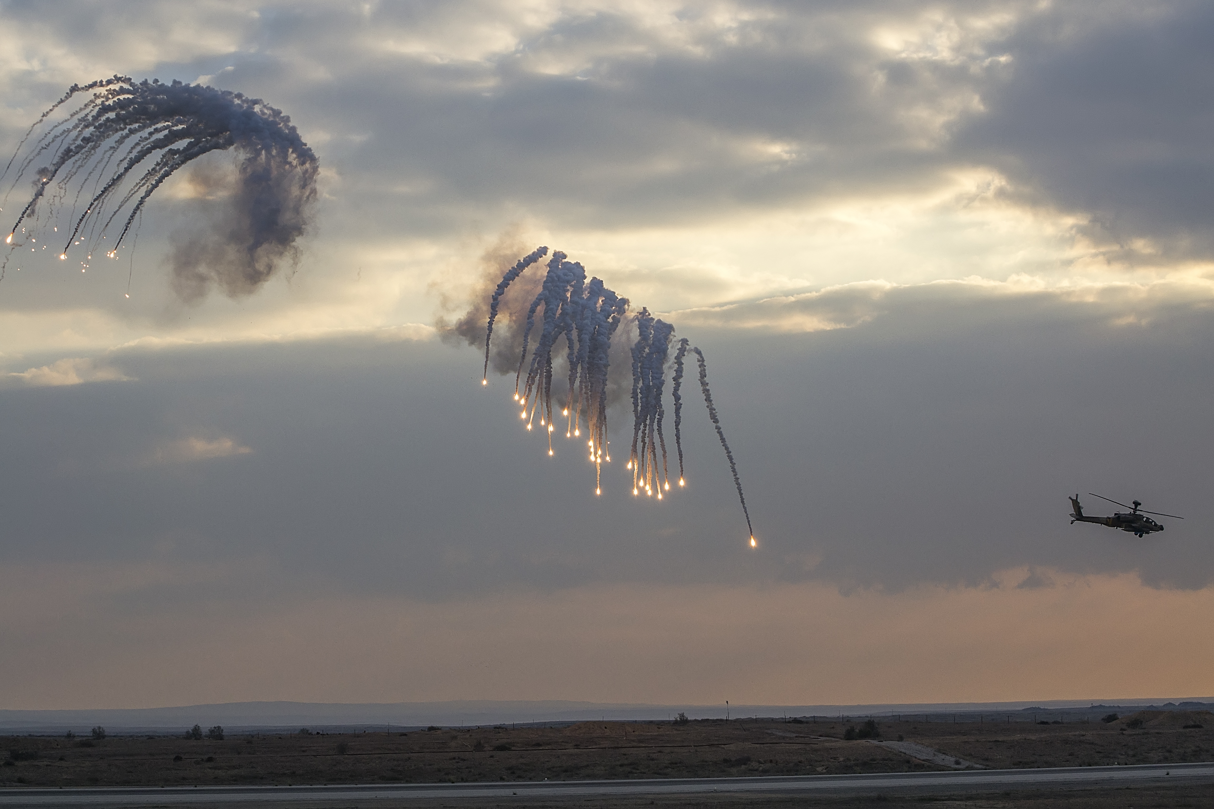 Apache releases flares on Graduates of Aviation Course 165 of IAF